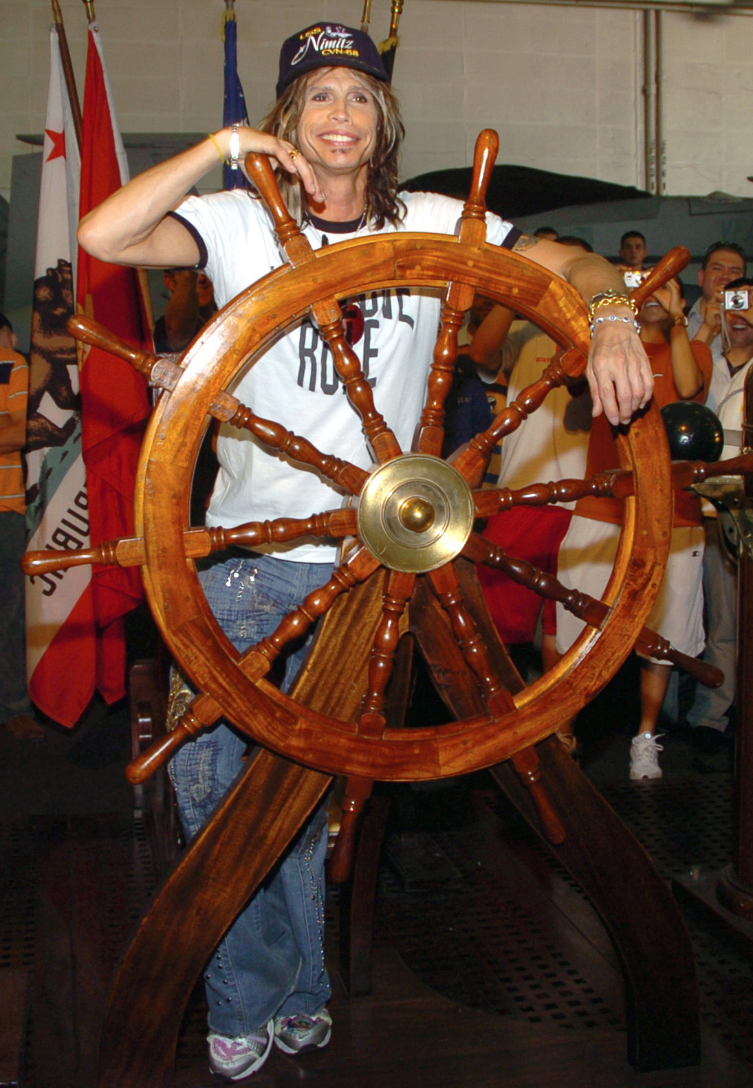 Steven Tyler from “Aerosmith” meets his fans on the ceremonial quarterdeck aboard the nuclear-powered aircraft carrier USS Nimitz (CVN 68). Nimitz Carrier Strike Group and embarked Carrier Air Wing (CVW) 11 are deployed to 5th Fleet conducting maritime operations in support of the global war on terrorism. U.S. Navy photo by Mass Communication Specialist Seaman Apprentice John Scorza (RELEASED).